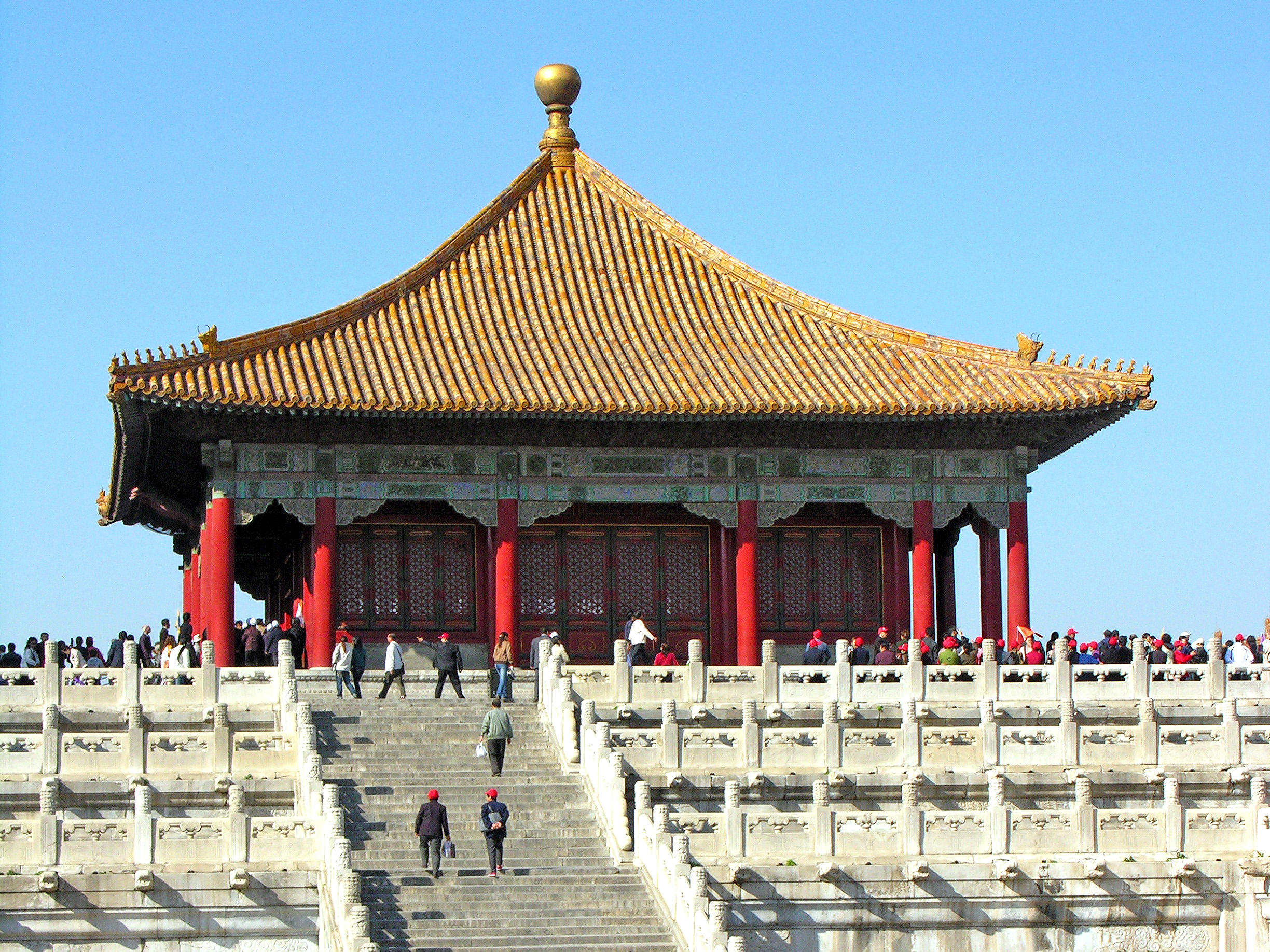 Cropped version of File:Flickr_-_archer10_(Dennis)_-_China-6177.jpg